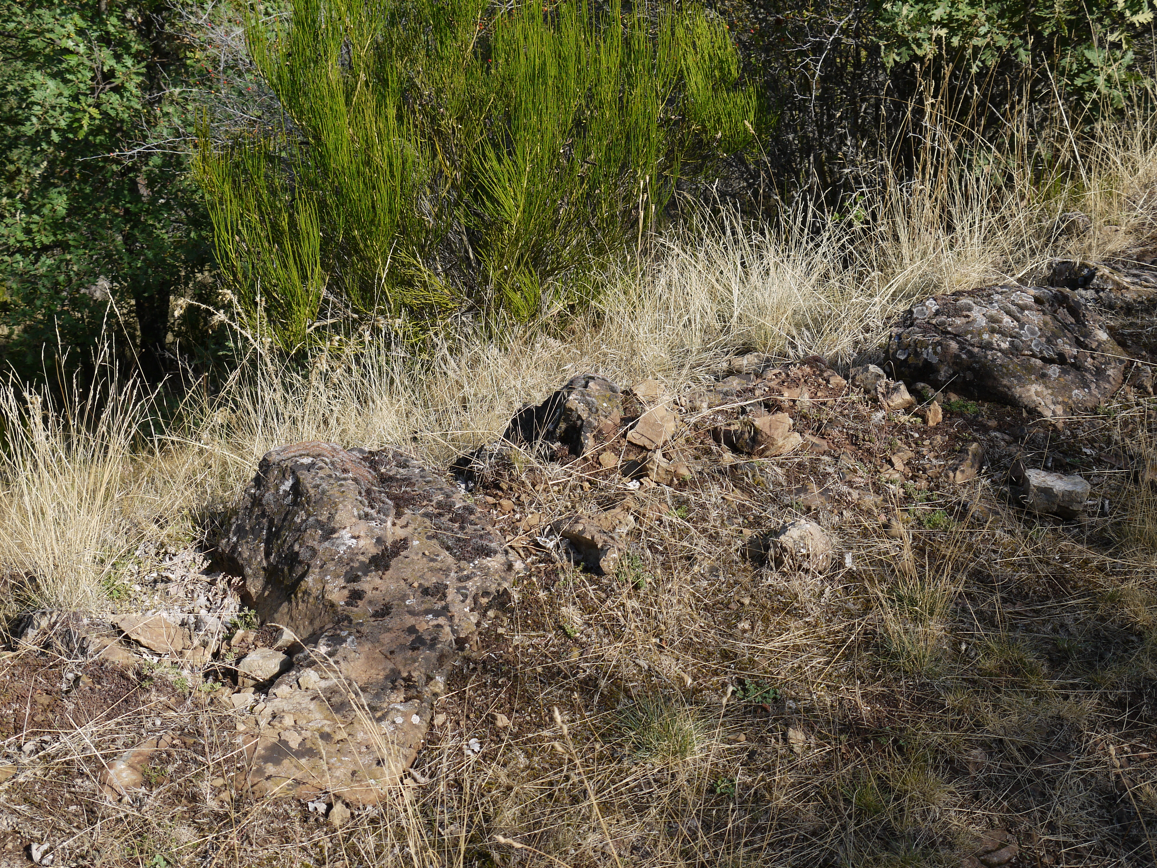 Vegadeo Limestone Formation, Lower-Middle Cambrian from Northern Spain